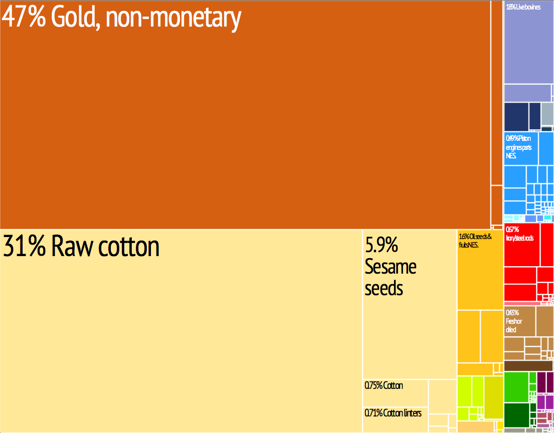 Export Trading Treemap. From MIT/Harvard Atlas of Economic Complexity